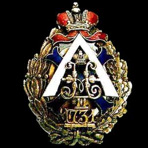 Badge of Aleksopolsky 31-st Regiment